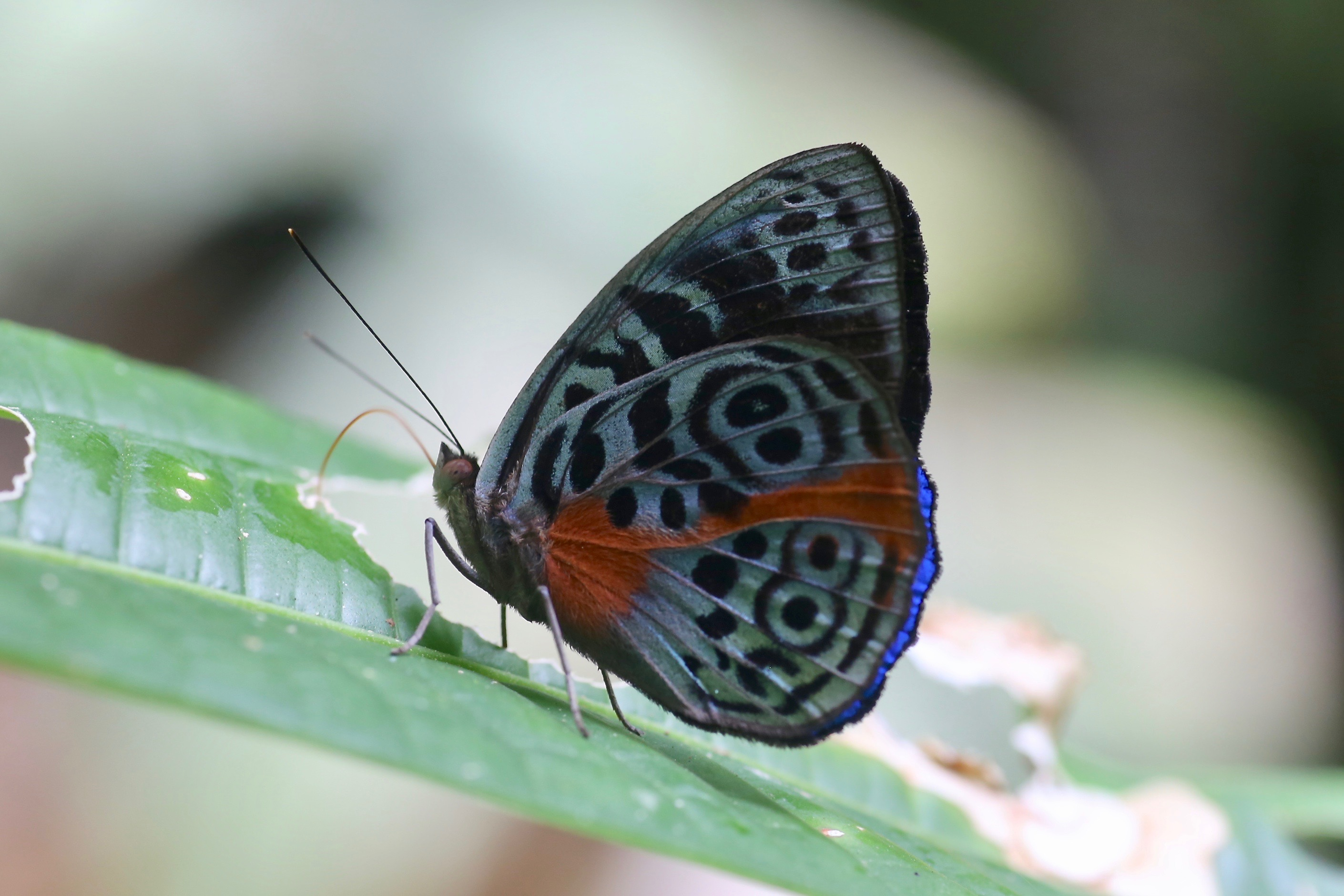 Eunica sophonisba, Ecuador, Napo Province, Puerto Misahuallí, Upper Napo River Bank, Jatun Sacha Biological Reserve